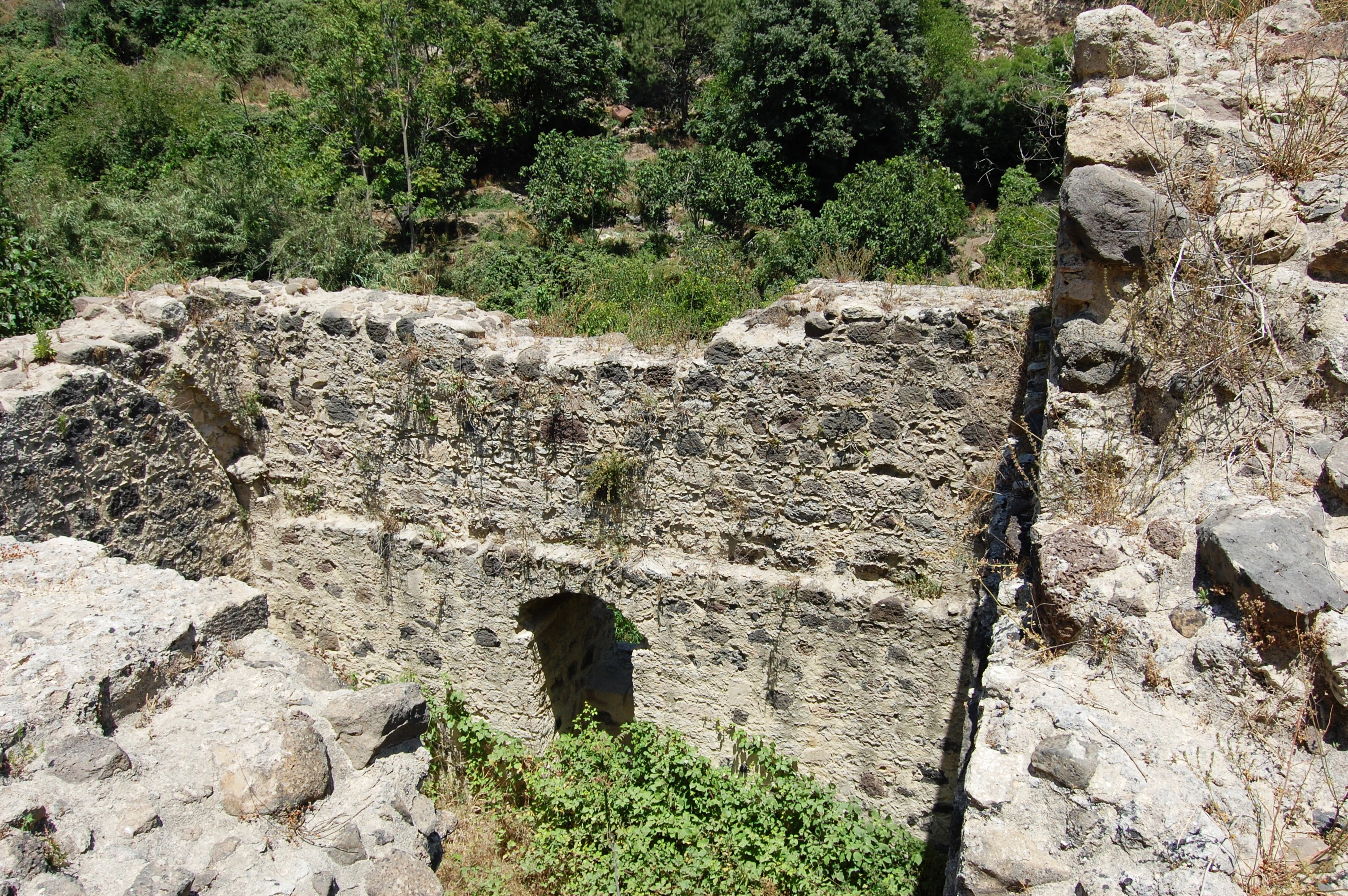 Militello. Norman tower